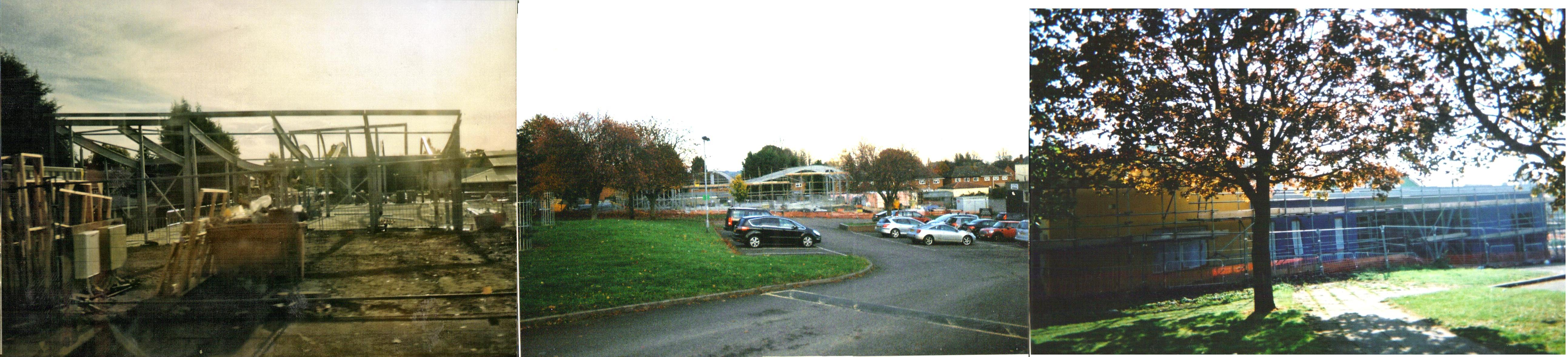 The building of the new Woodgreen youth club in late 2010/late 2010/ early 2011.Wipsenade (talk) 13:18, 10 May 2011 (UTC)